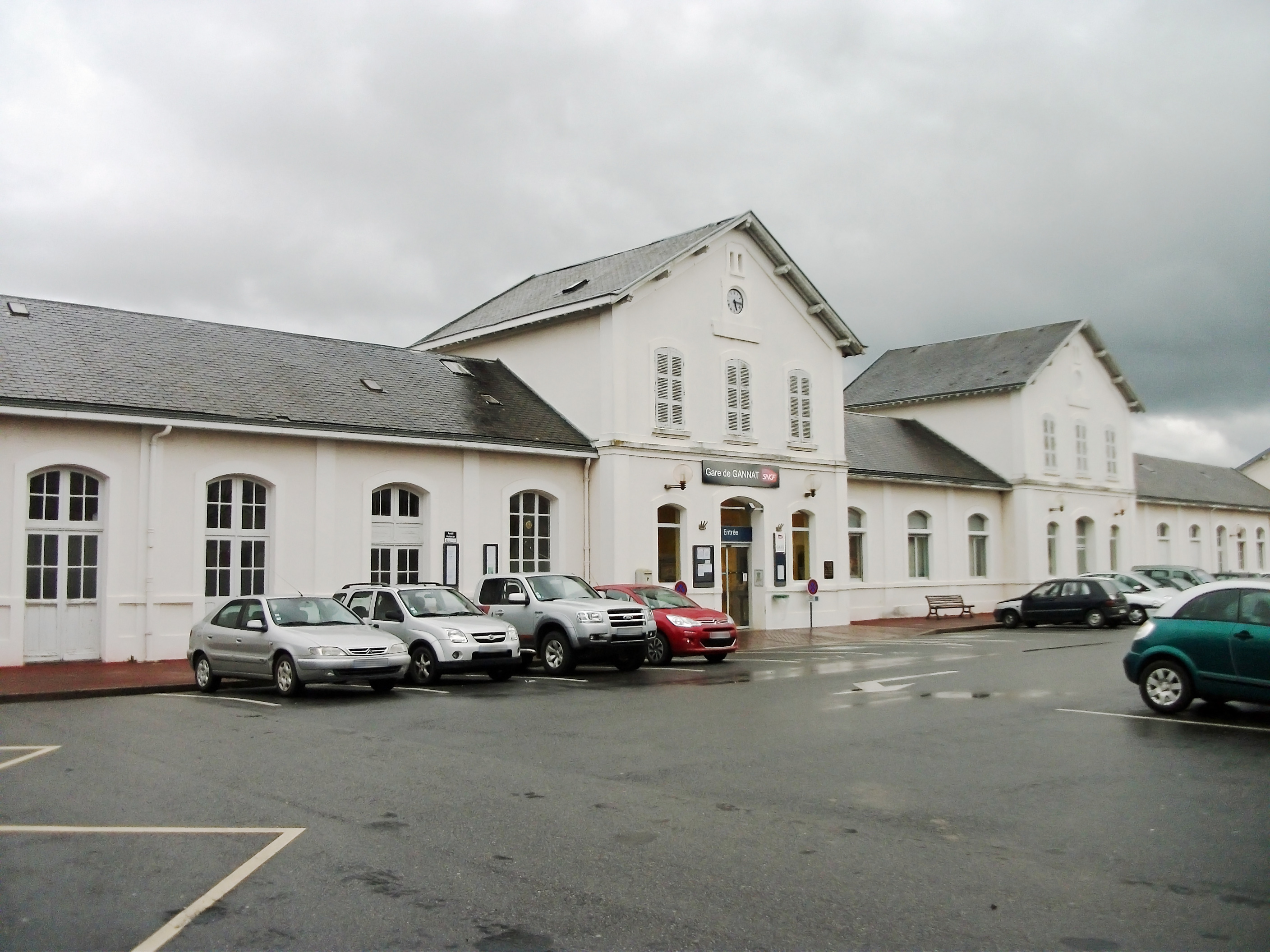 Facade of the Gannat railway station [10098]